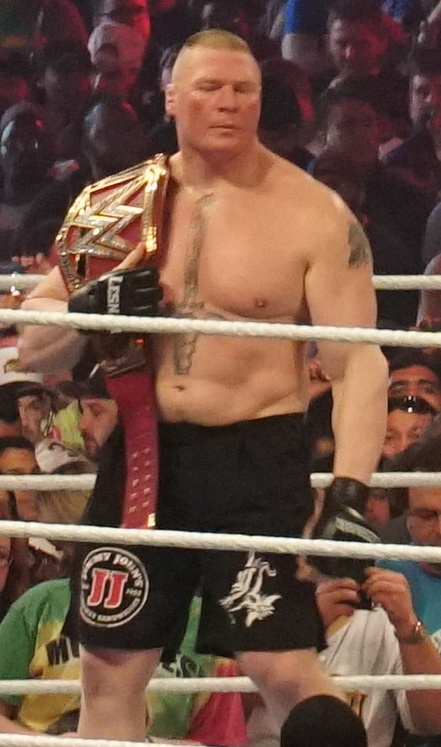 NOLA 2018 - WWE Wrestlemania 34 - Brock Lesnar Vs Roman Reigns Brock Lesnar (c) def. (pin) Roman Reigns (in 15:53) For : WWE Universal Championship Rating : *** ( Deux semaines a Nola pour la ville et pour WWE Wrestlemania XXXIV Two weeks Nola for the city and for WWE Wrestlemania XXXIV )